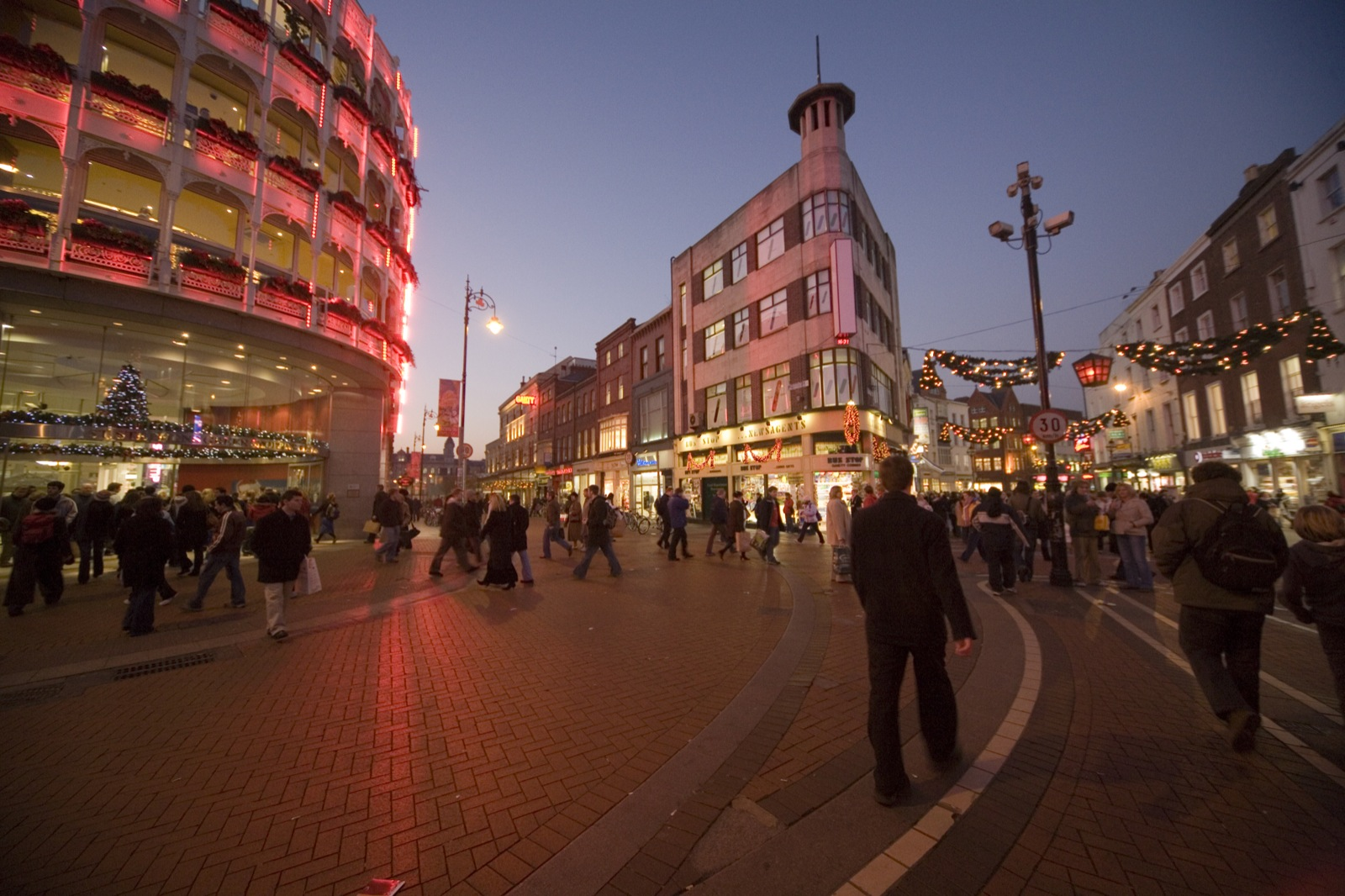 Dublin Shopping centre at Christmas